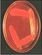 Cultures of Shigella bacteria.